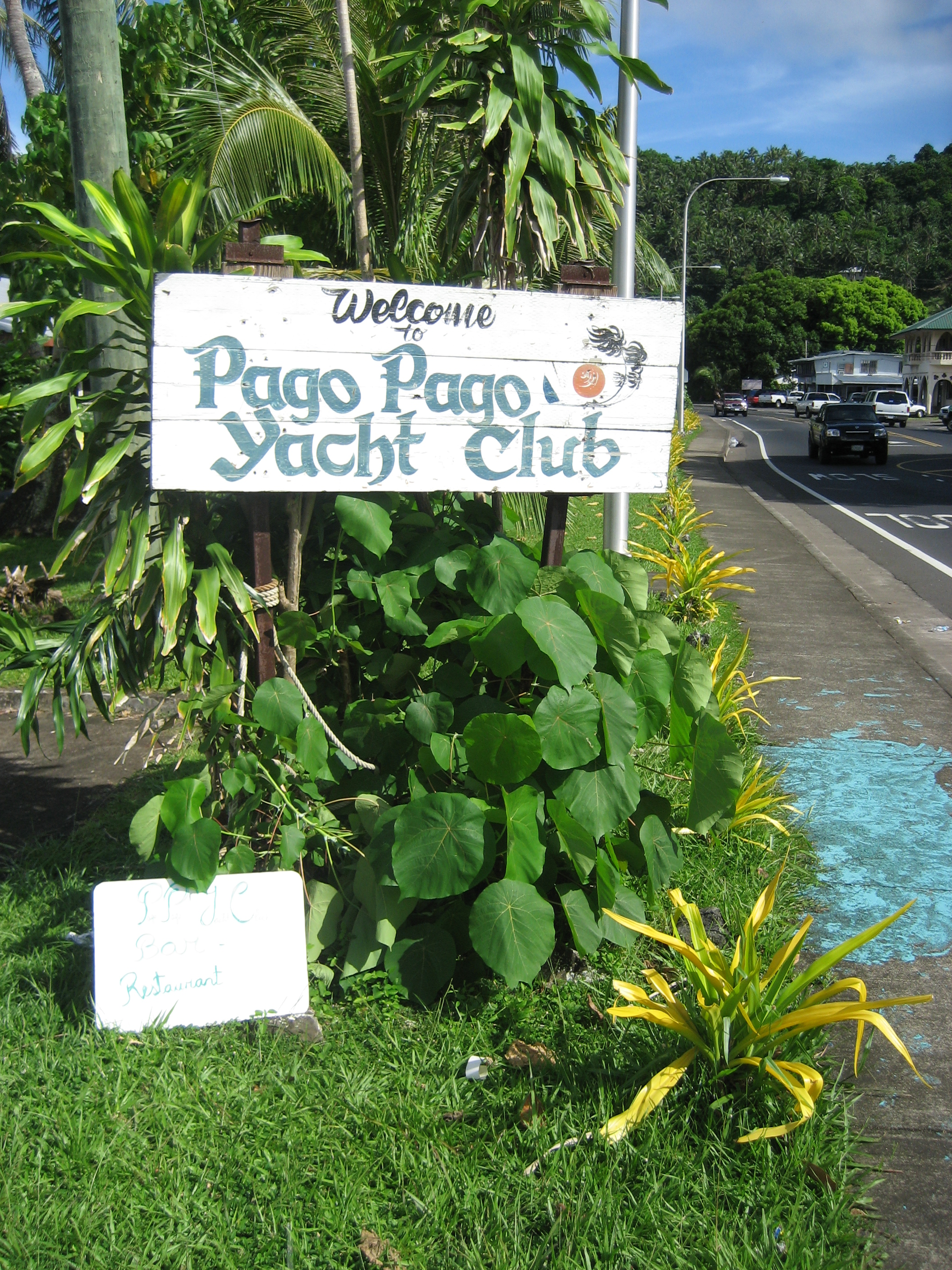 Pago Pago Yacht Club. Top drinking hole and the most fun you can have in the South Pacific with your clothes on.